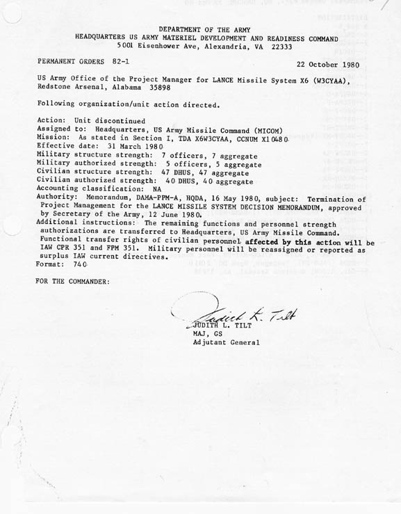 The Department of the Army orders to close MGM-52 Lance operations at MAMP. dated 22 Oct 1980.